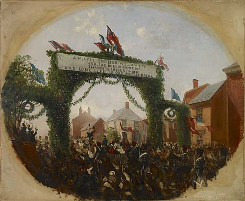 Painting depicting the opening of Calthorpe Park, Birmingham, England, by Prince George, Duke of Cambridge, on 1 June 1857.